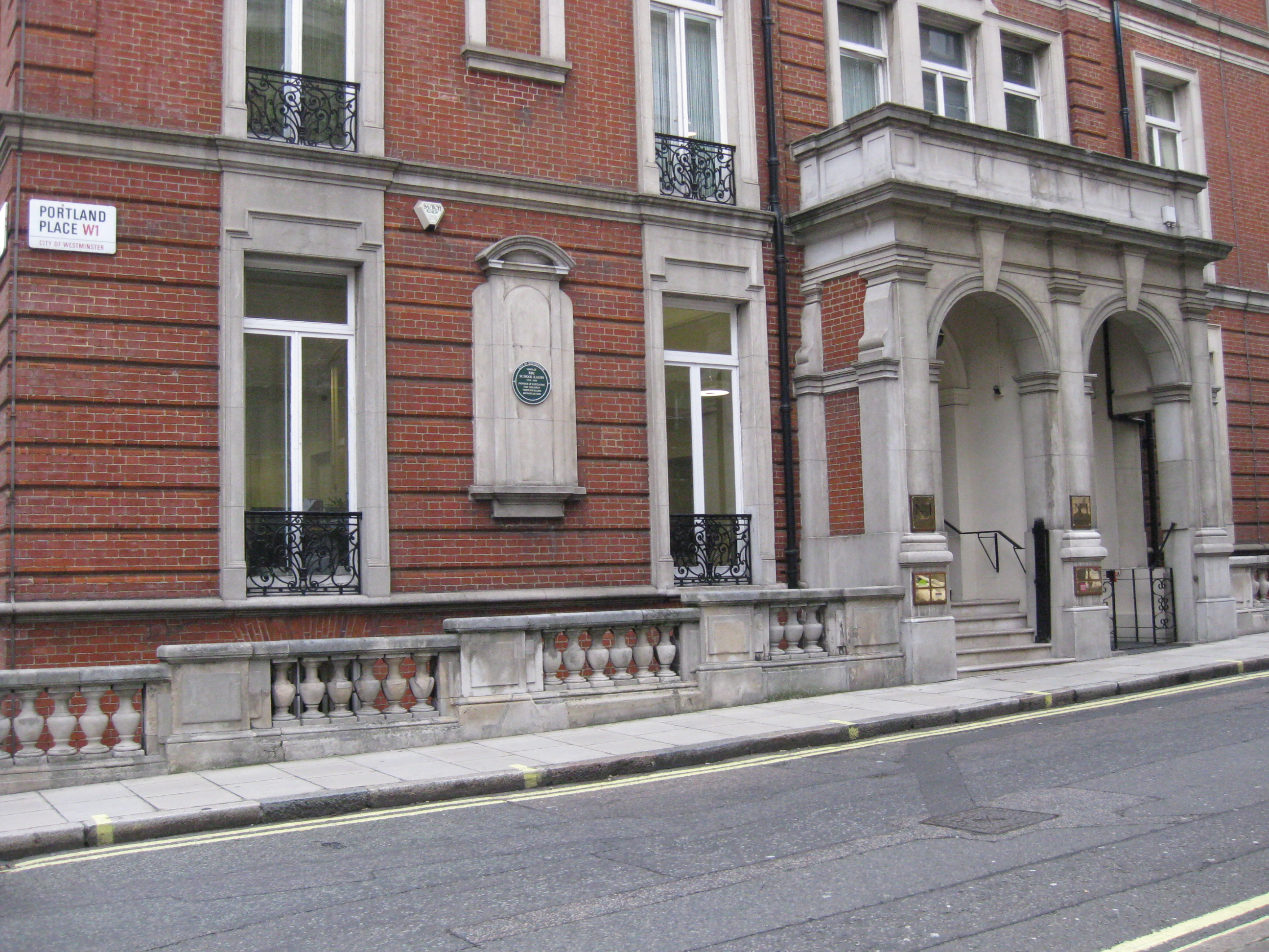 Number 1, Portland Place, Westminster, London W1B 1PN. Formerly home of BBC School Radio, 1952 - 1993, according to the green plaque. As of 2011, occupants include the Institution of Chemical Engineers.